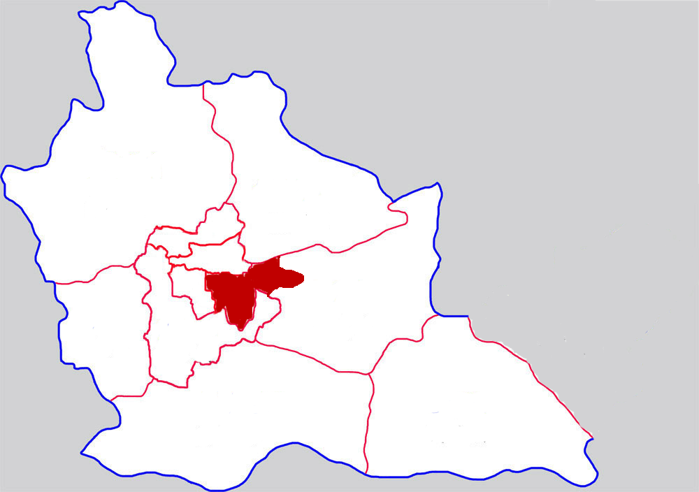 Location of Hongqi district in Xinxiang city, China